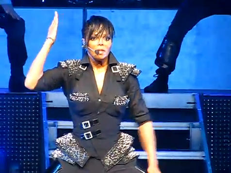 Janet Jackson during her Up Close And Personal Tour dancing to Rhythm Nation.